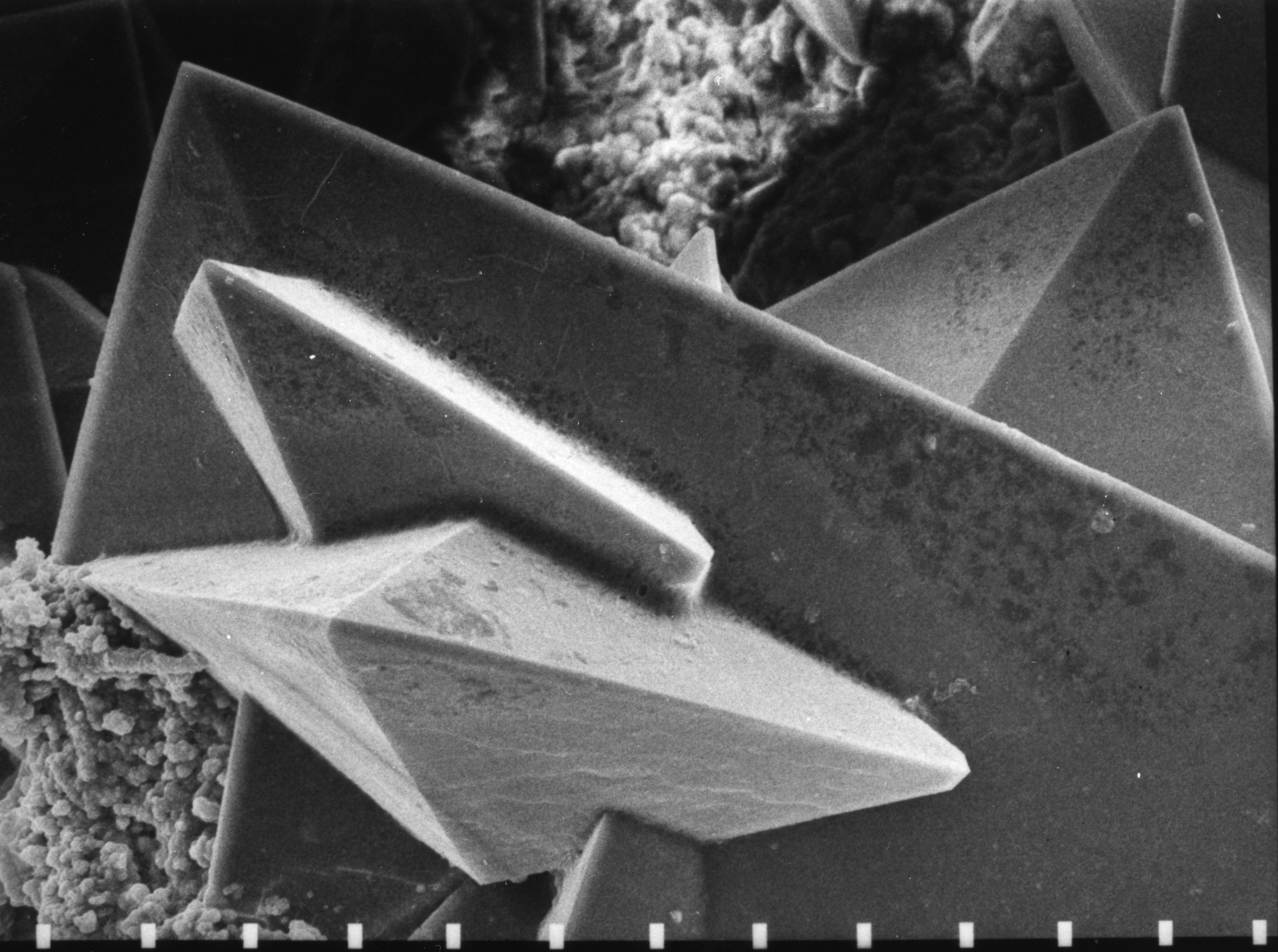 Scanning Electron Micrograph (SEM) of tetragonal crystals of Weddellite (calcium oxalate dihydrate) on the surface of a kidney stone. Horizontal length of the picture represents 0.35 mm of the figured original (30 KV, image number 14).